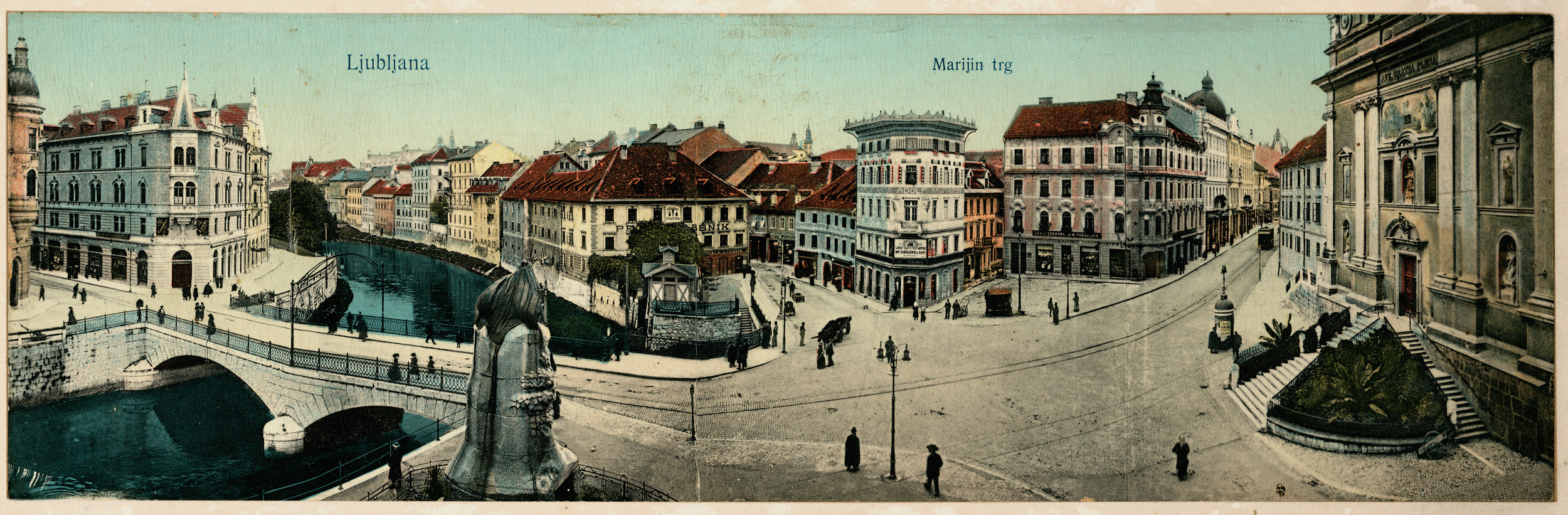 Postcards of Prešeren Square.